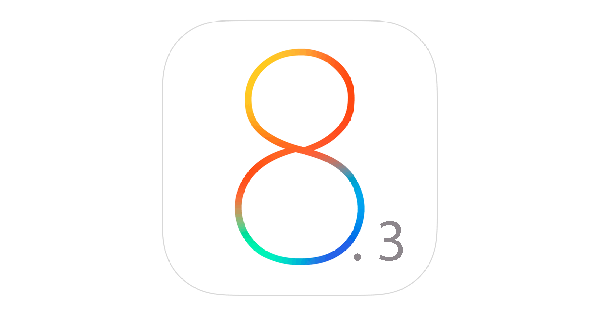 Ios-8-3-logo